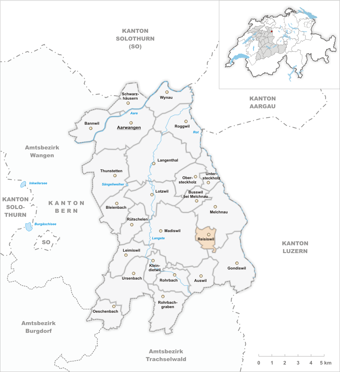 Municipality Reisiswil